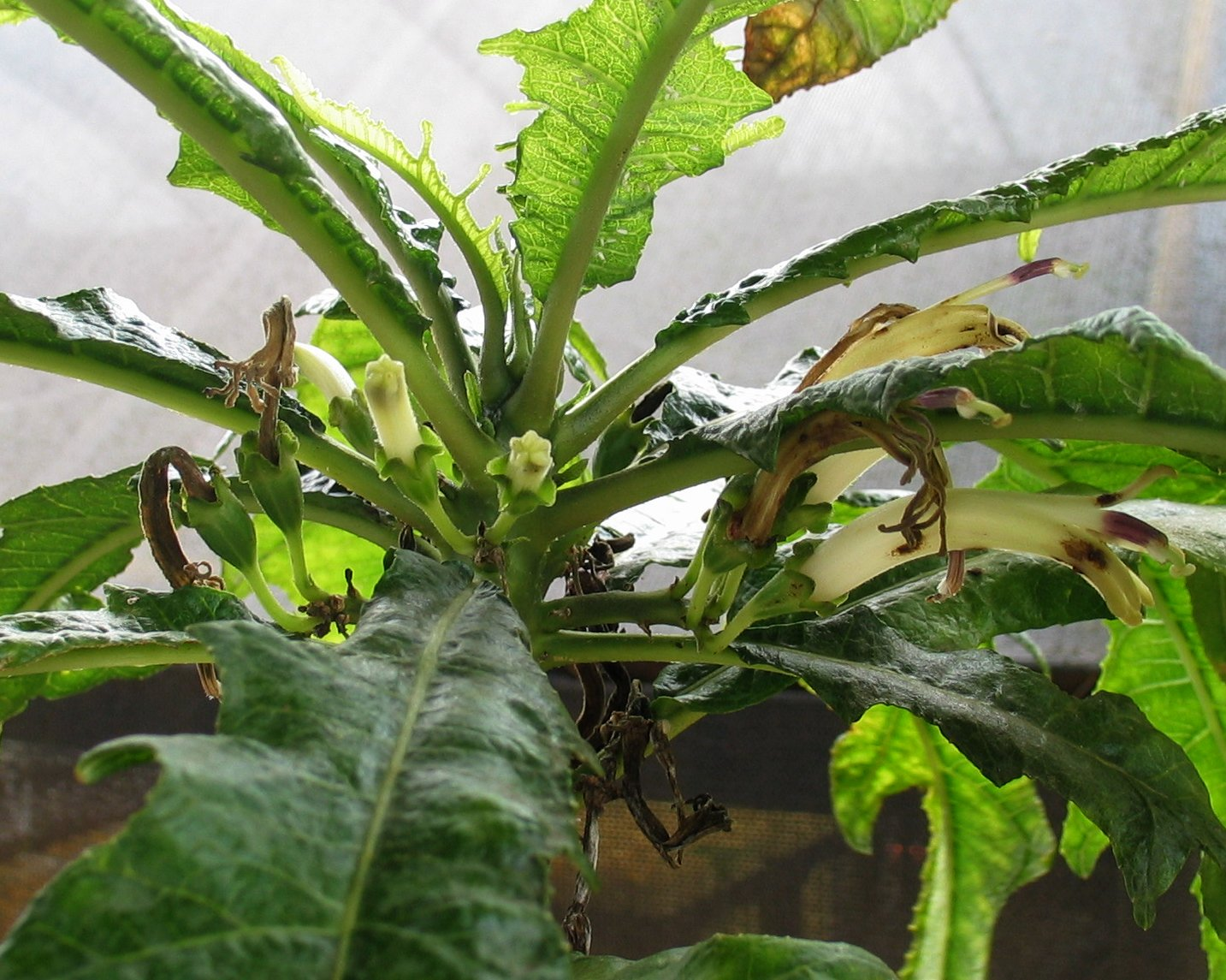 Hāhā Campanulaceae Endemic to the Hawaiian Islands (Oʻahu only) Endangered Oʻahu (Cultivated) Tail end of the flowering period.